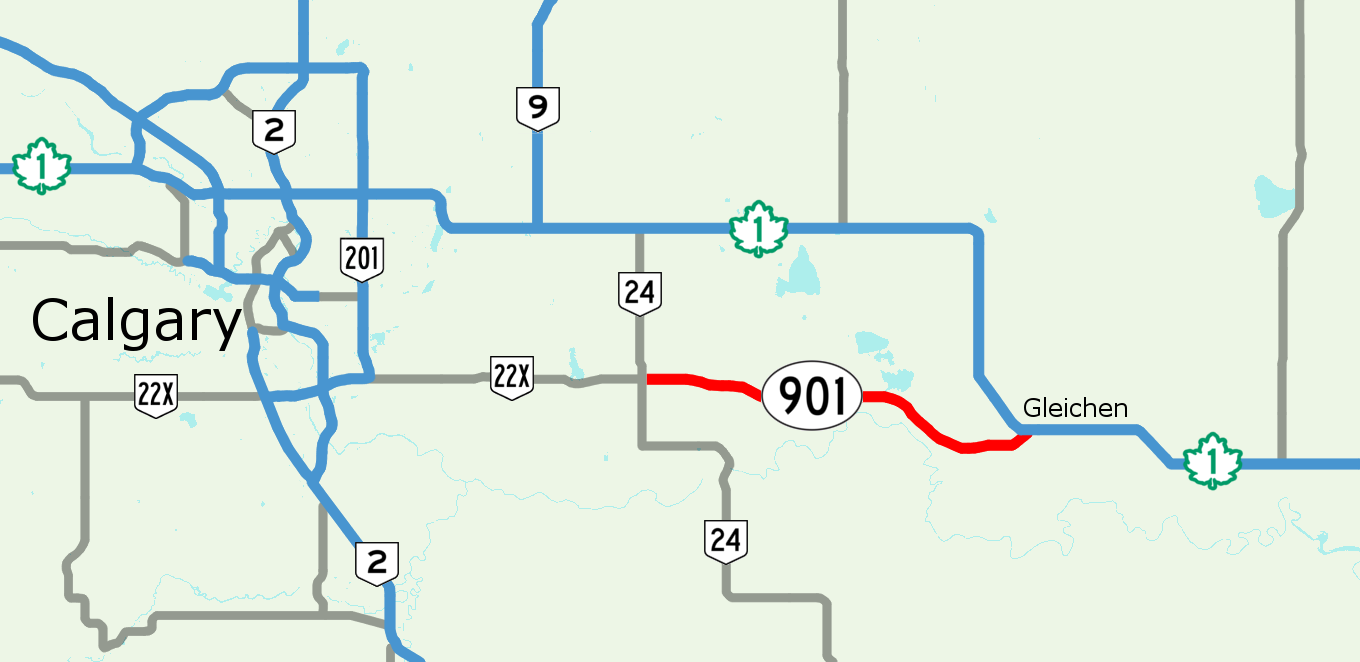 Highway 901 near Calgary, Alberta, Canada. - created with OpenStreetMap